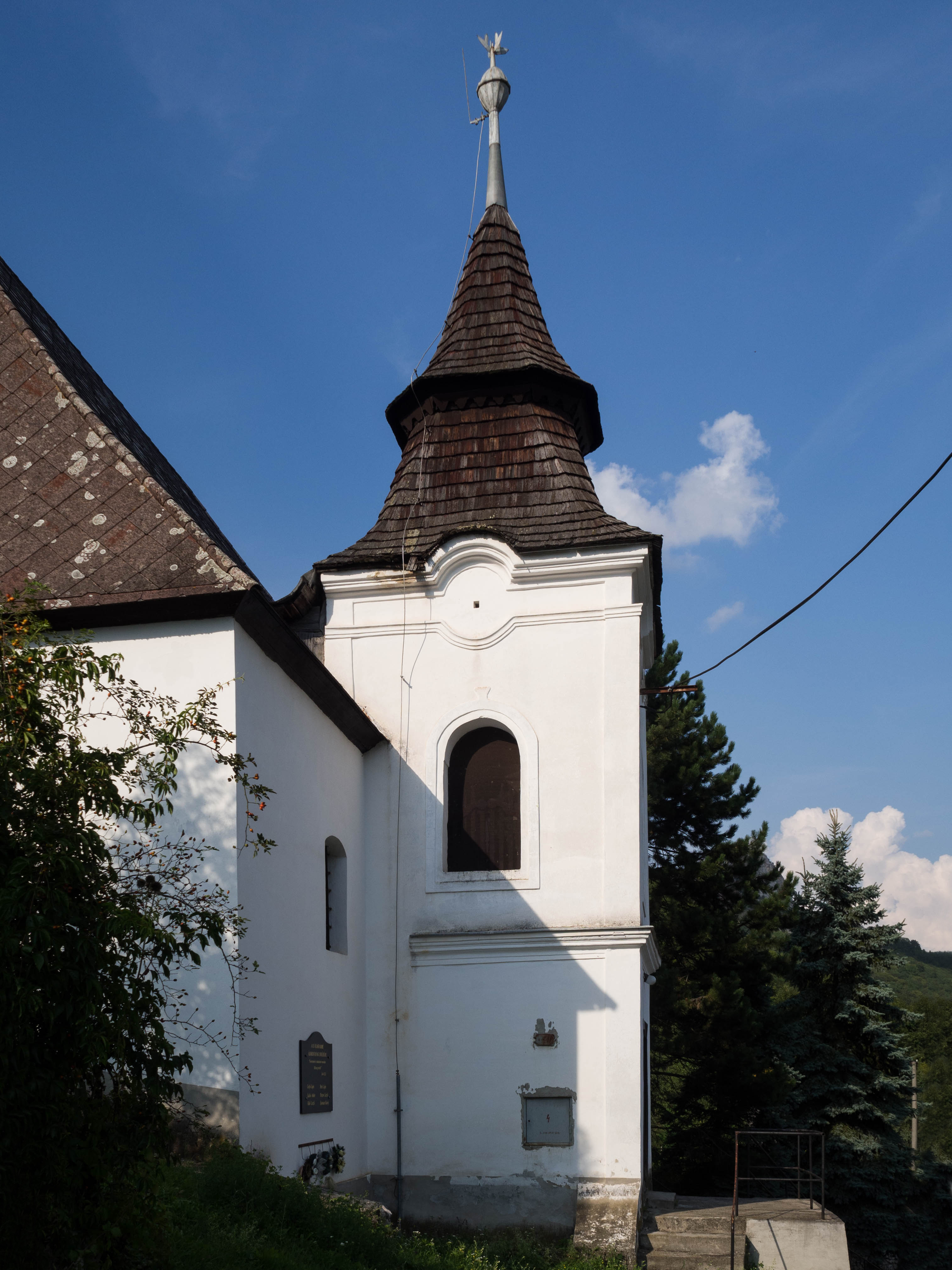 Reformed Church in Vidová, Slovakia. The first renaissance building was rebuild in classical style at the beginning of 19th century.